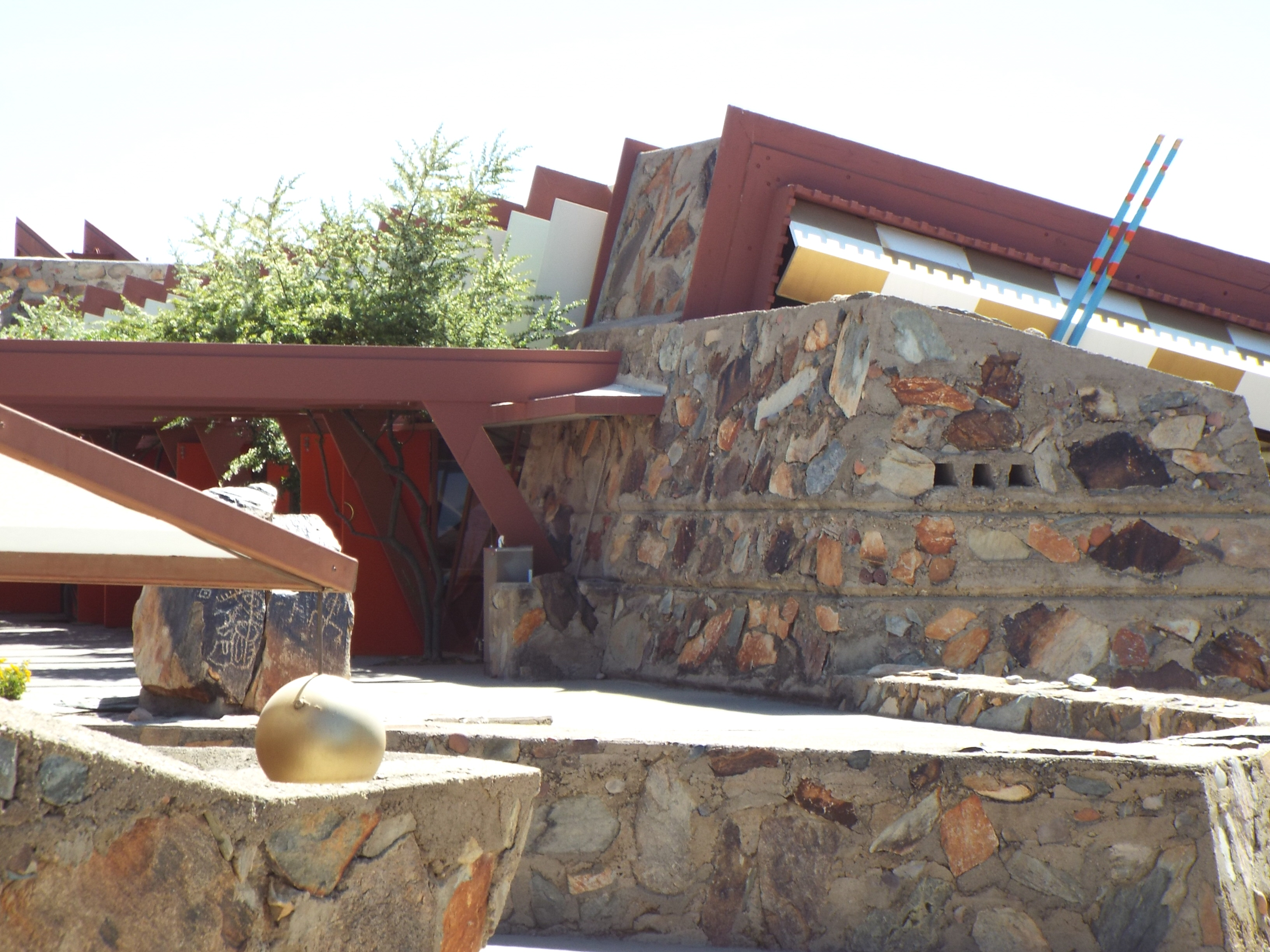 Taliesin West was built in 1931 and is located at 12345 N. Taliesin Drive. Taliesin West was the winter home and school of architect Frank Lloyd Wright in the desert from 1931 until his death in 1959. It was listed in the National Register of Historic Places on February 12, 1974, reference: 74000457.